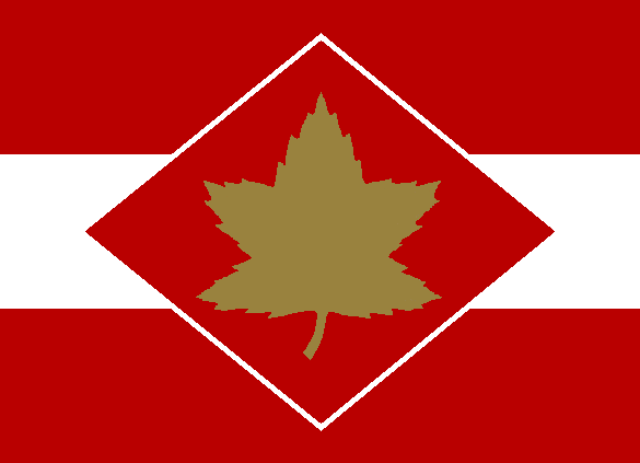 The formation signs used by the Canadian Army in WWII would be covered by a Crown Copyright held by the Canadian Department of National Defence. The copyright expired 50 years after the formation sign was created (no later than 1944). The image in the file was created entirely by me based on other lower-quality images accessible on the Internet.